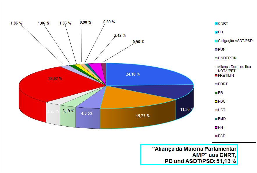 Results of parliament election in East Timor 2007